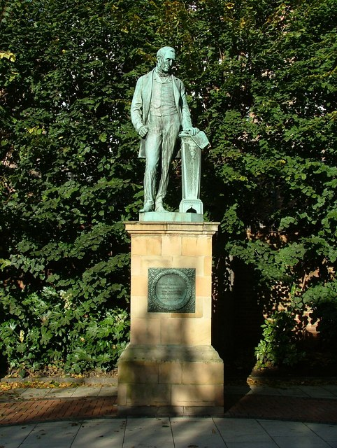 Statue of Michael Thomas Bass - Wardwick, Derby. Michael Thomas Bass, of the Burton upon Trent brewing family, was a noted philanthropist who funded the building of the nearby library. He served as member of Parliament for Derby between 1847 and 1883 in Derbyshire.